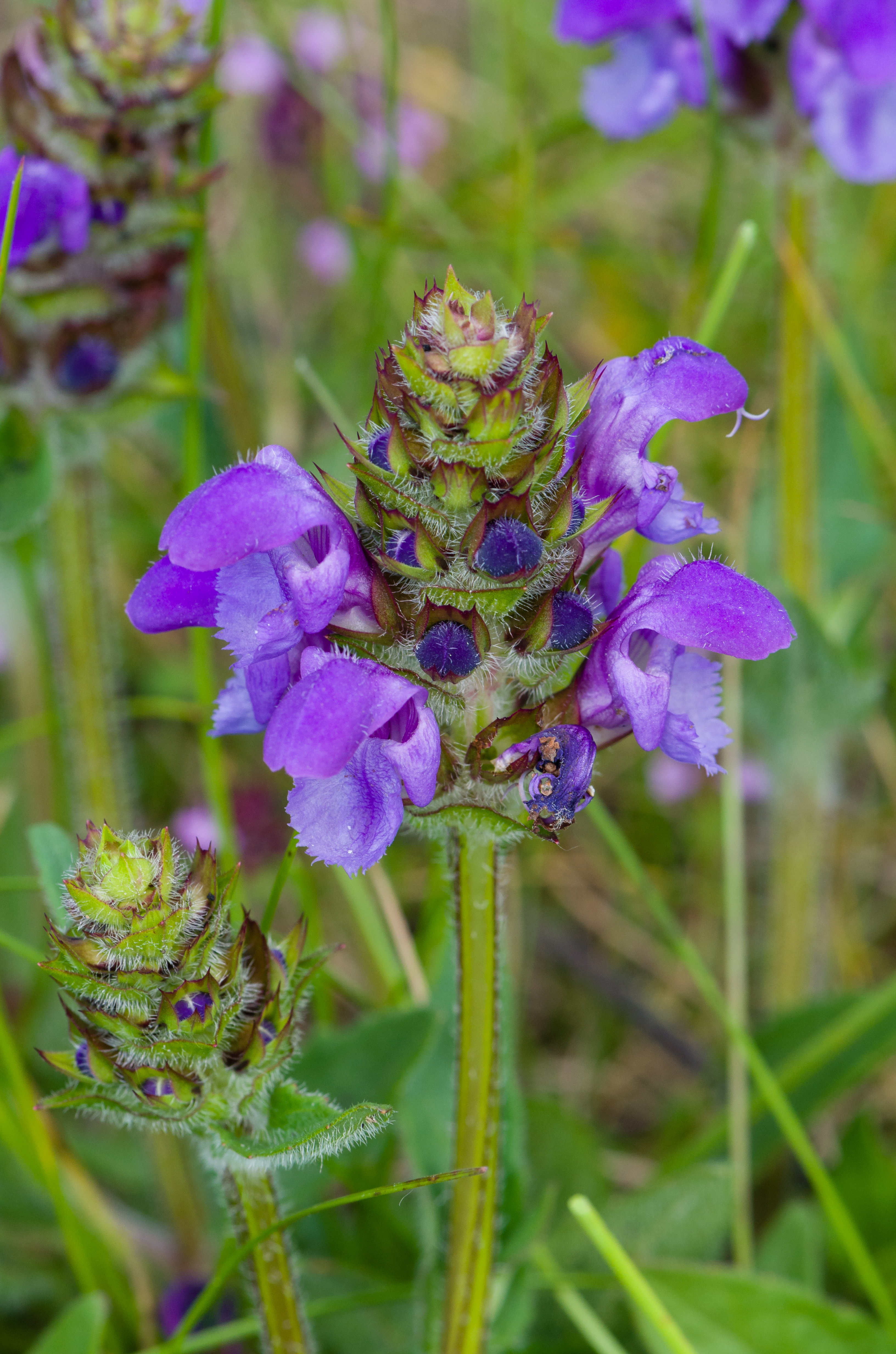 Large Self-heal (Prunella grandiflora)